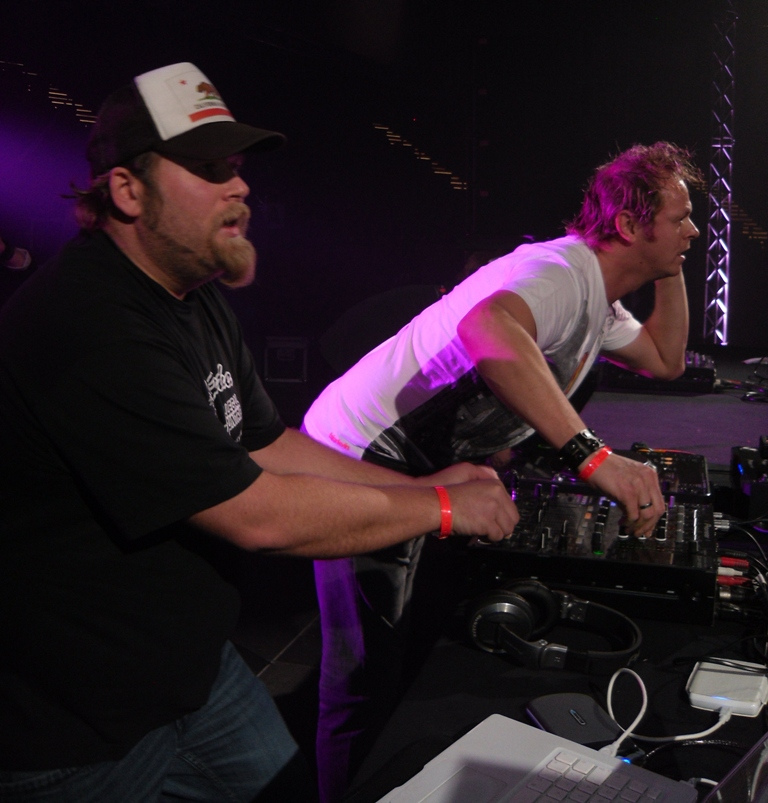 Alex M.O.R.P.H. and Woody van Eyden